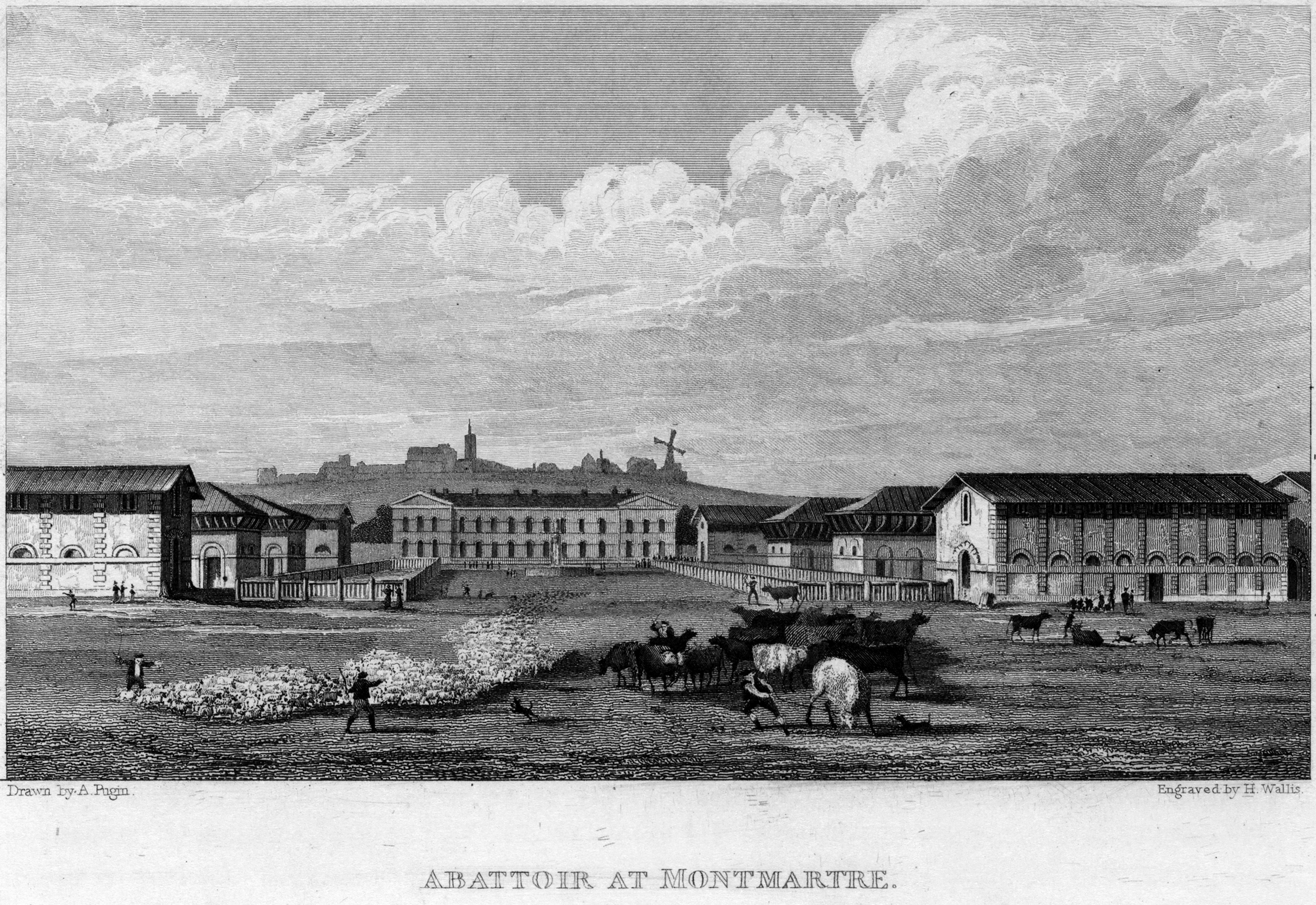 In 1810, in an attempt to appease the complaints of many Parisians, Napoléon ordered that five slaughtering houses, or "abattoirs," be built just outside of Paris: three on the right bank, and two on the left. These areas were to be the only designated locations where butchers were allowed to slaughter cattle. The abattoir of Montmartre, shown here, was located between the rues Rochechouart, de la Tour d'Auvergne, and des Martyrs, and had dimensions of 1074 feet by 384 feet.